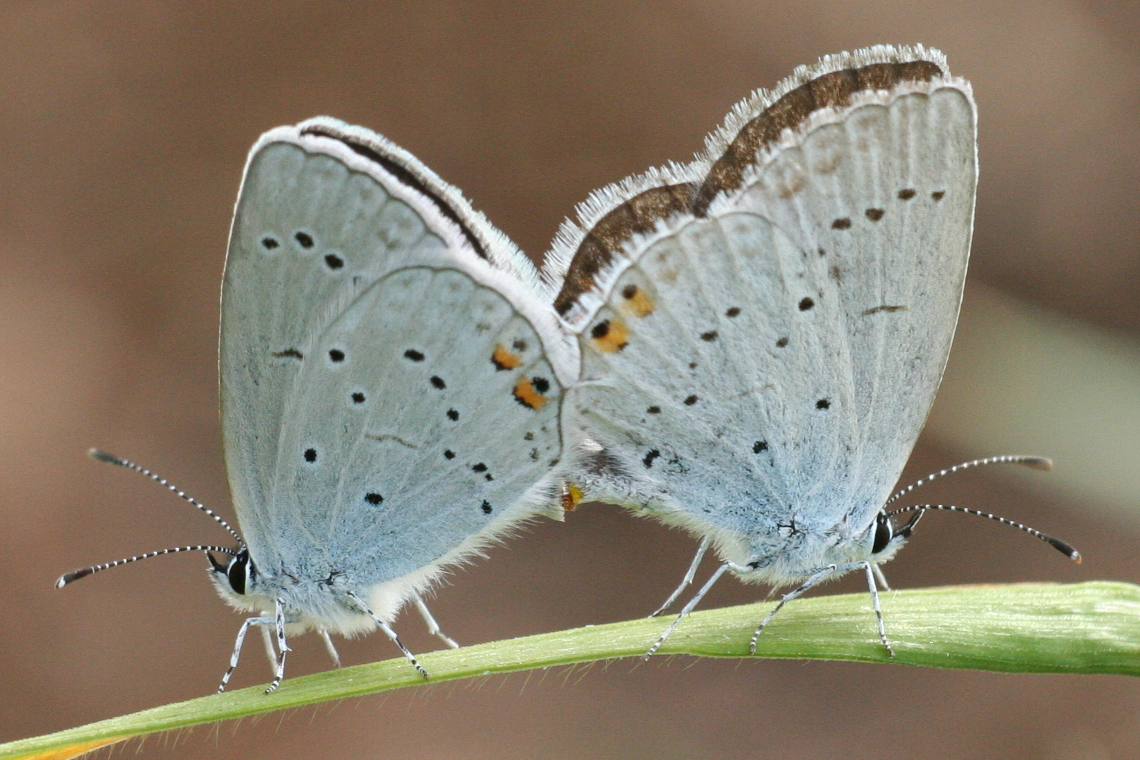 A couple of the short-tailed blue butterfly (Cupido argiades), photographed in Weinsberg